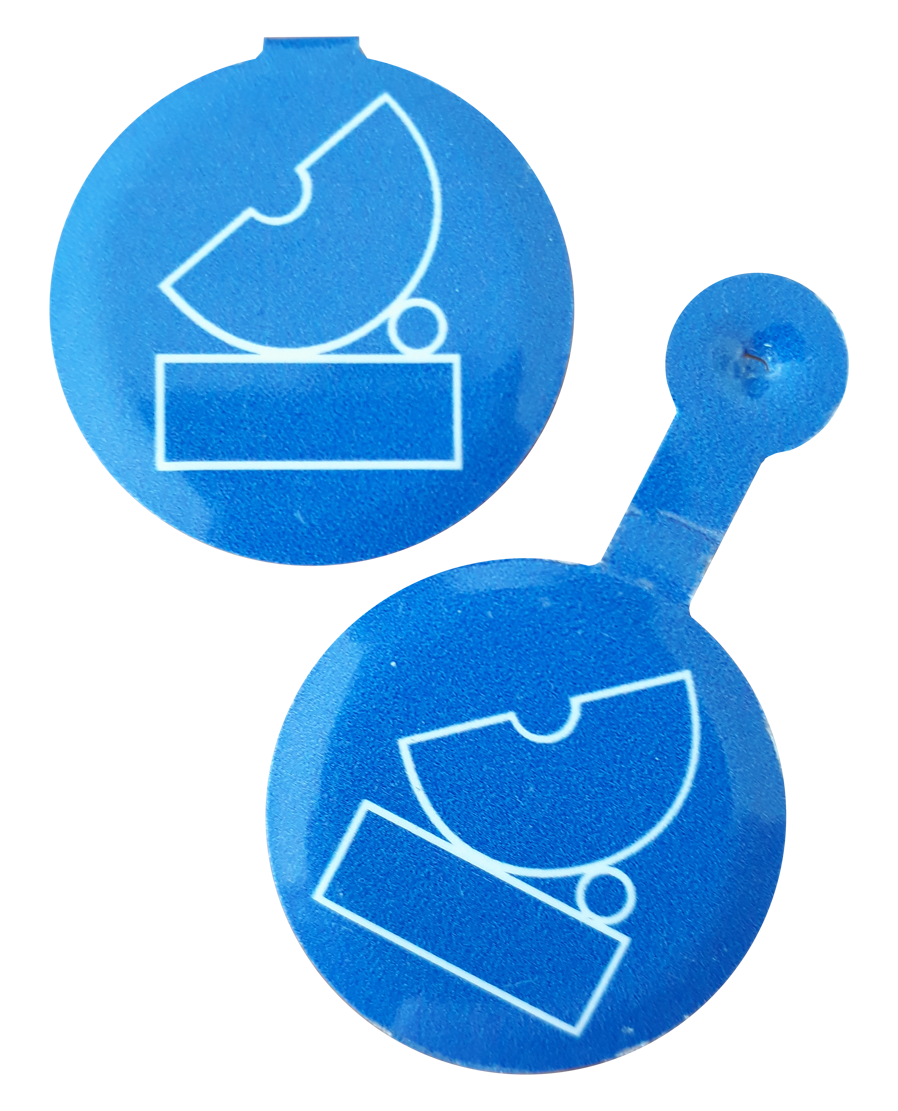 Ticket-pin to Danish Museum of Art & Desin in Copenhagen